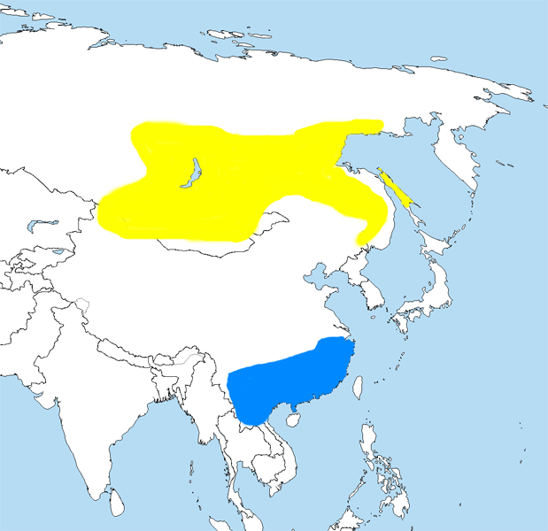 Range map of Phylloscopus proregulus, based on Baker, Kevin (1997) Warblers of Europe, Asia and North Africa (Helm Identification Guides), London: Helm, p. 802 ISBN: 0-7136-3971-7. Simms, Eric (1985) British Warblers (New Naturalist Series), London: Collins, p. 339 ISBN: 0-00-219810-X. Hoyo, Josep del; Elliott, Andrew; Sargatal, Jordi; Christie, David A; de Juana, Eduardo (eds.) (2013). Pallas's Leaf-warbler (Phylloscopus proregulus). Handbook of the Birds of the World Alive. Lynx Edicions. Subscription required Base map is File:A_large_blank_world_map_with_oceans_marked_in_blue.PNG